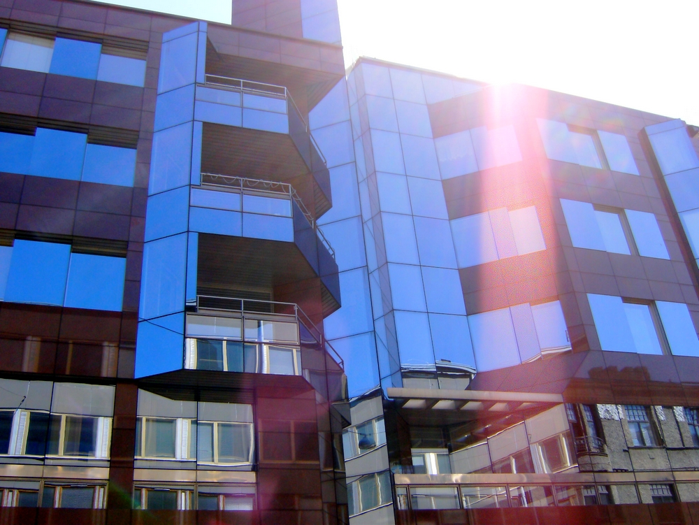 Lönnrotinkatu 12 (built 1992), Helsinki, Finland